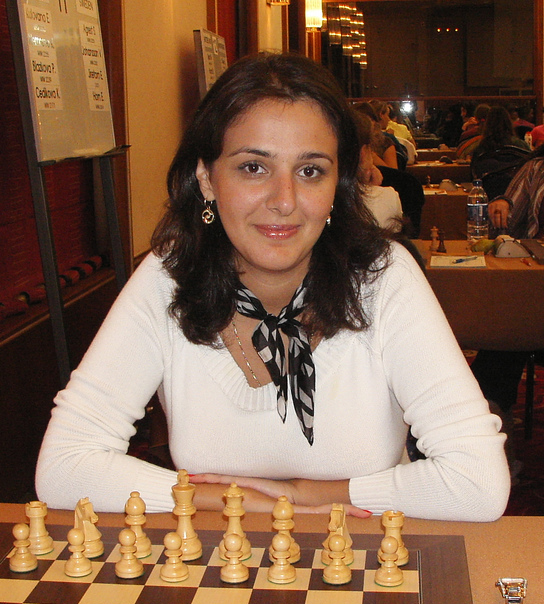 WGM Maia Lomineishvili (Georgia), Heraklion 2007